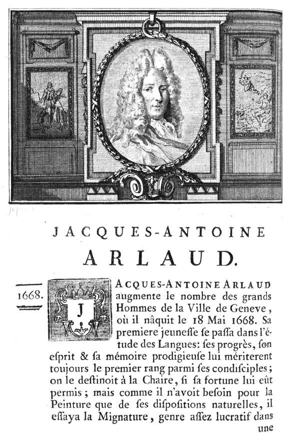 Biography of Jacques-Antoine Arlaud with engraved portrait featured on page 116 of "Tome Quatrieme" of Jean-Baptiste Descamps' "La Vie des Peintres Flamands", 4 volumes (I 1753, II 1754, III, 1760, IV 1764)